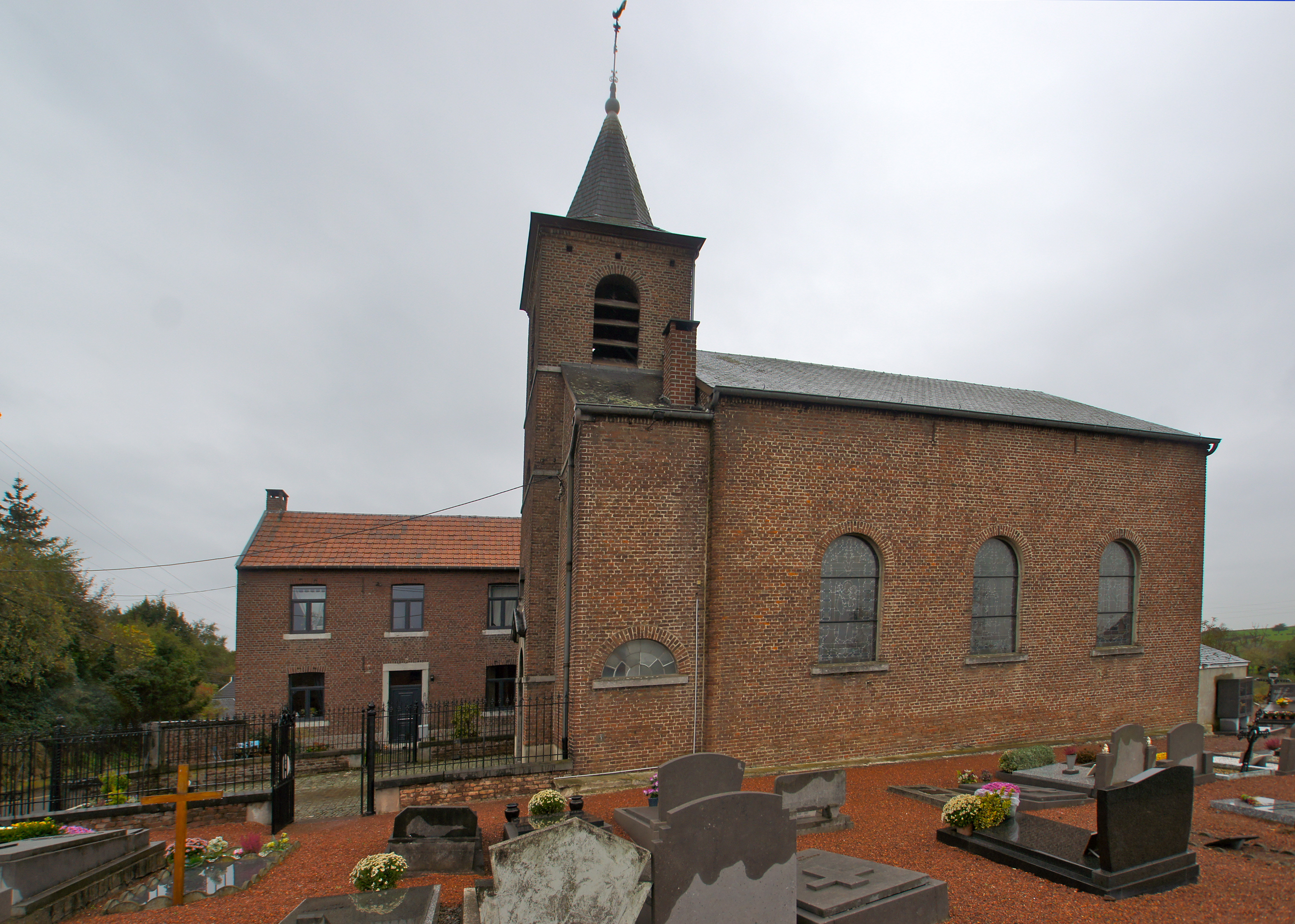 Dalhem (Feneur), Belgium: Lambert of Maastricht Church, eastern façade